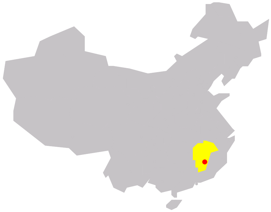 position of Ruijin in China